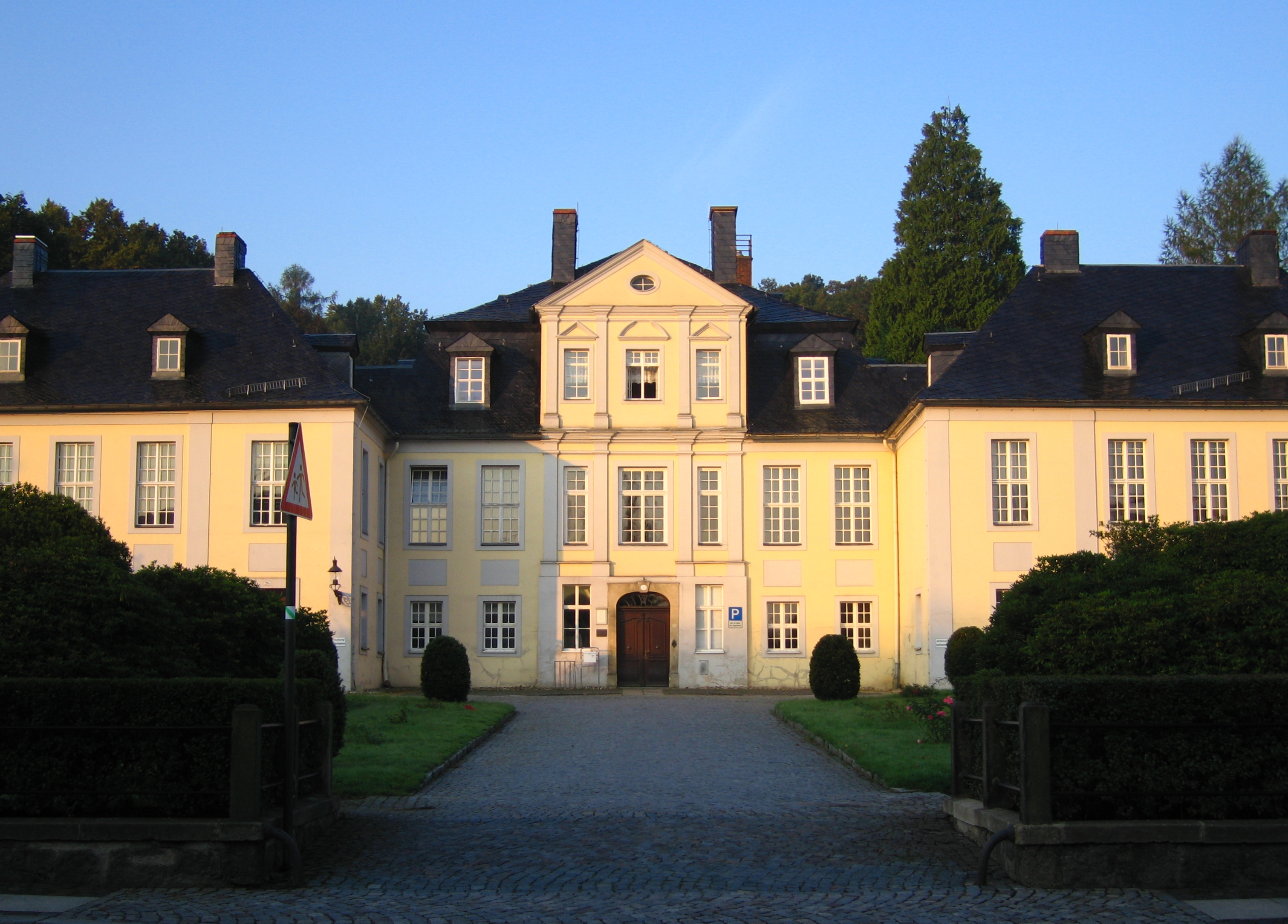 Vogtshof Herrnhut - Residence of the Provincial Board of the Moravian Church